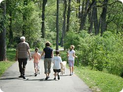 photo of Little Sugar Creek Greenway in Huntingtowne Farms Park, Charlotte, NC